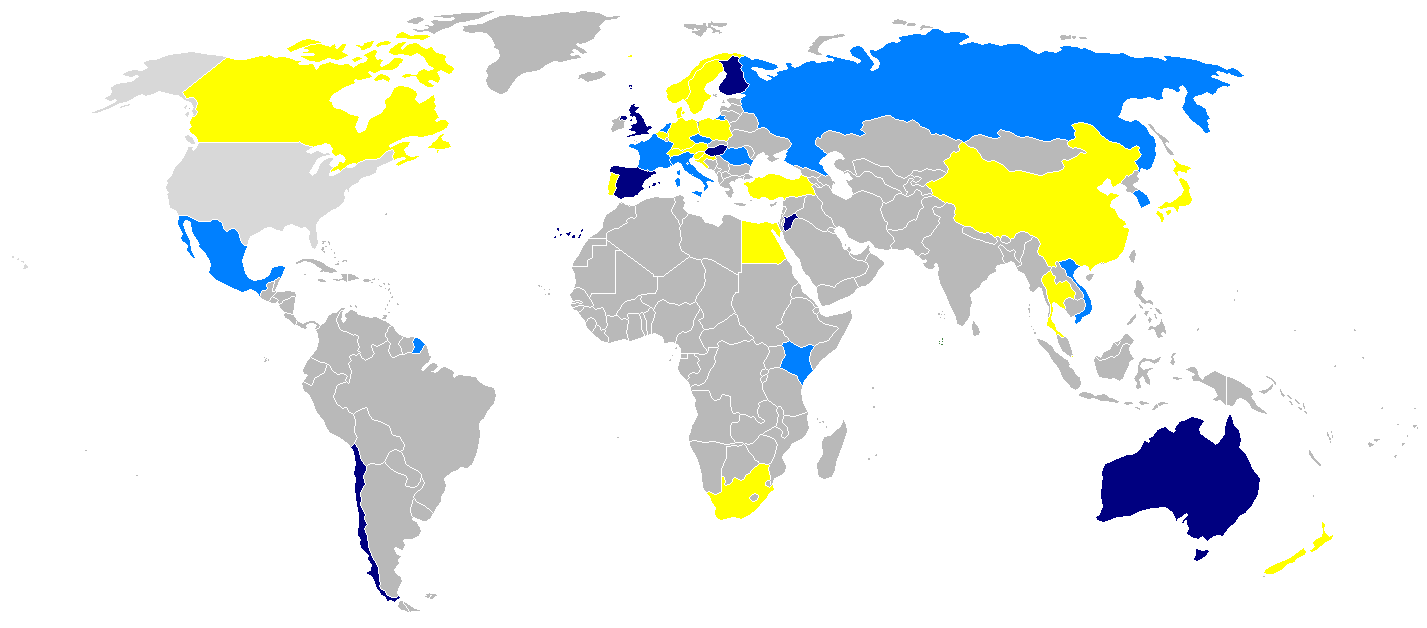 State of 2010. This image shows to wich airline alliance belongs the flag-carrier of each state. Yellow = Star Alliance, Light Blue = SkyTeam, Dark Blue = Oneworld